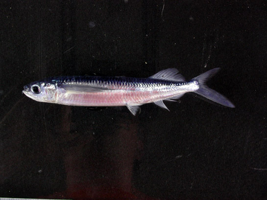 Small wing flyingfish Oxyporhamphus micropterus